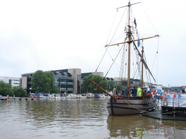 Brayford Pool and Lincoln University Buildings during Lincoln Waterfront Festival Incorporating a fine view of the full-sized replica of 'Discovery'. Not to be confused with the RRS Discovery at NO4029 of Scott of the Antarctic fame, but one of the three ships that took settlers to Jamestown, Virginia, America from Blackwall in London's Docklands in 1606, almost 300 years earlier. Twenty two men braved the Atlantic in the original ship, which measured only 11 metres at the waterline and 3.5 metres across the beam. Her sister ships were the "Susan Constant" and the "Godspeed".